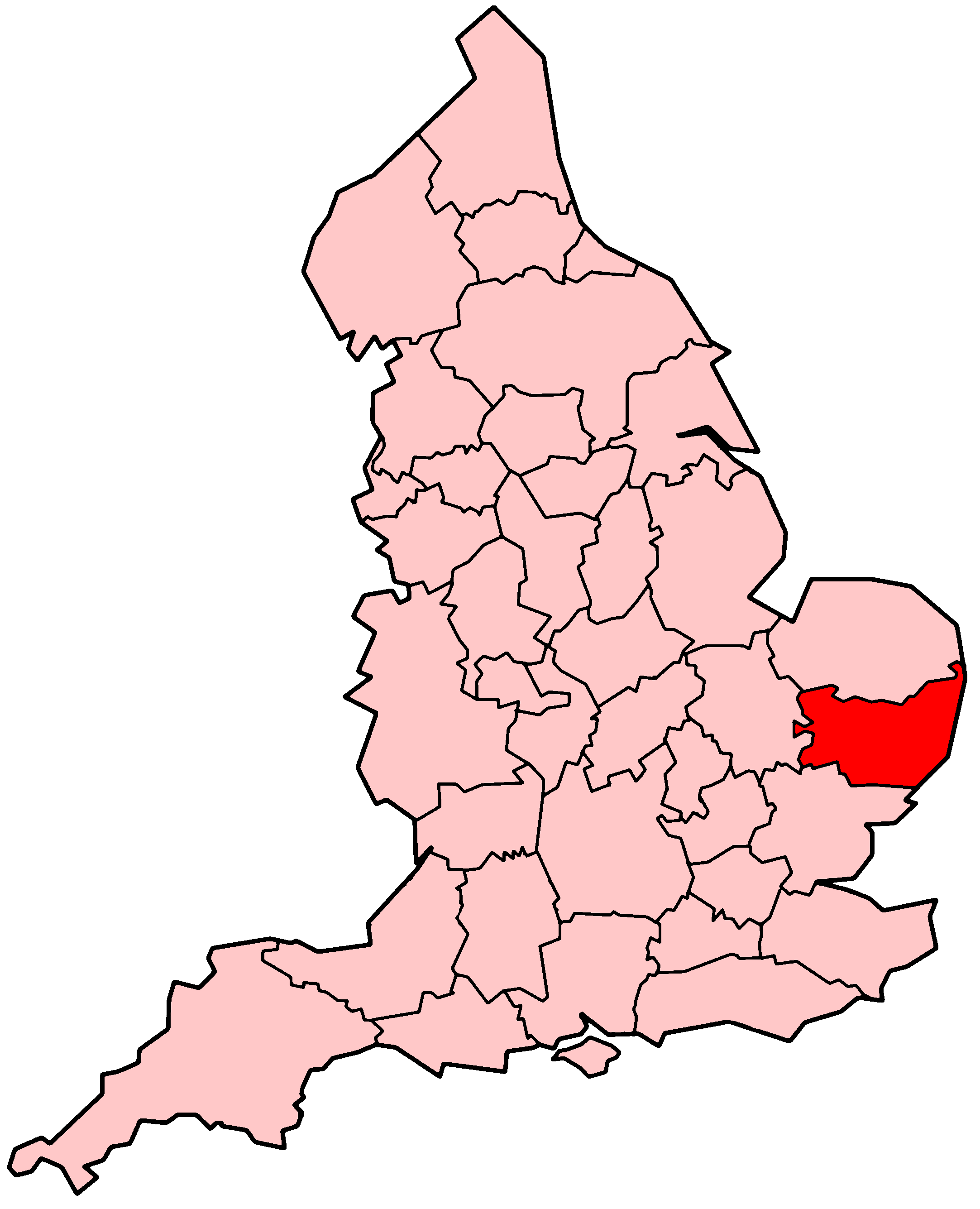 Locator map for Suffolk Police force area